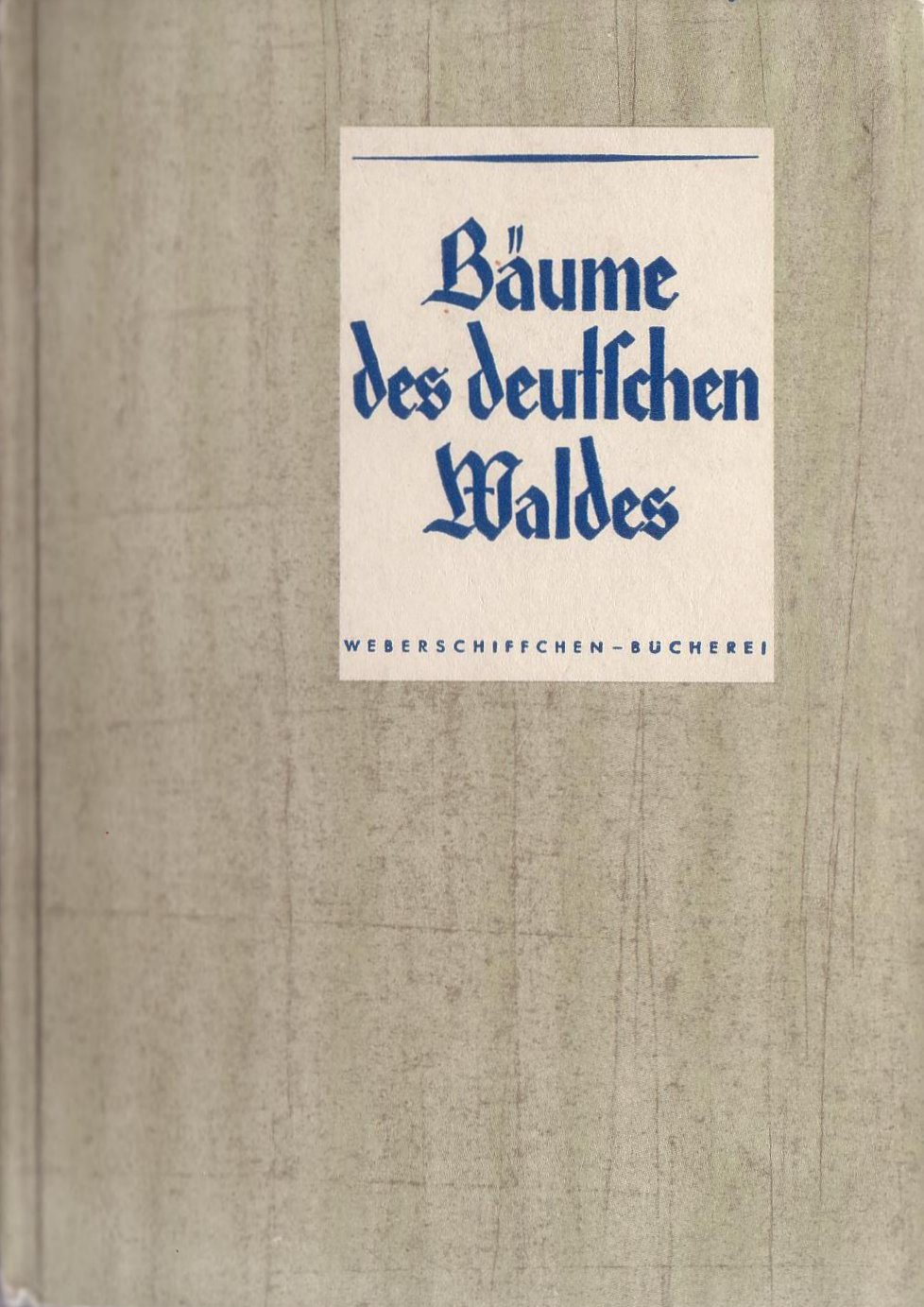 Tome 1 of Weberschiffchen-Bücherei (Book series), frontcover